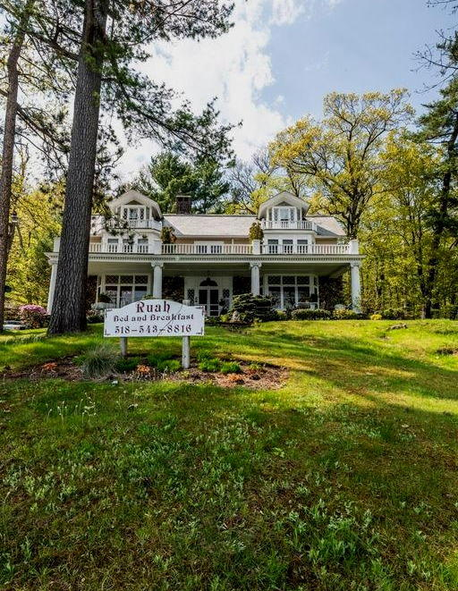 The waterfront summer house built by artists Harry and Elizabeth Watrous on Lake George in Hague, NY, in 1907, until recently the Ruah Bed and Breakfast.